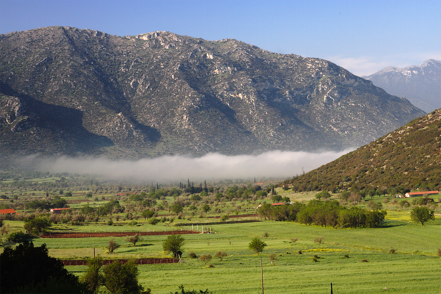 Kandila section of the Plateau Orchomenus, a karst basin/depression in 630 m, (polje). Kandila Plateau is the north eastern extension of the large basin, with the village Kandia on its slope. Relatively frequent geological phenomenon in the karst basins of the northeast Peloponnese, Greece. The plateau has no natural surface water outlet. Precipitation must be drained by ditches. When precipitation of winters is exceptionally rich, some agricultural fields may be wet or even flooded. Depending on the capacity of the ditches and the geologically old ponors at the Plateau Orchomenus’ western section, a temporary lake may result even nowadays.